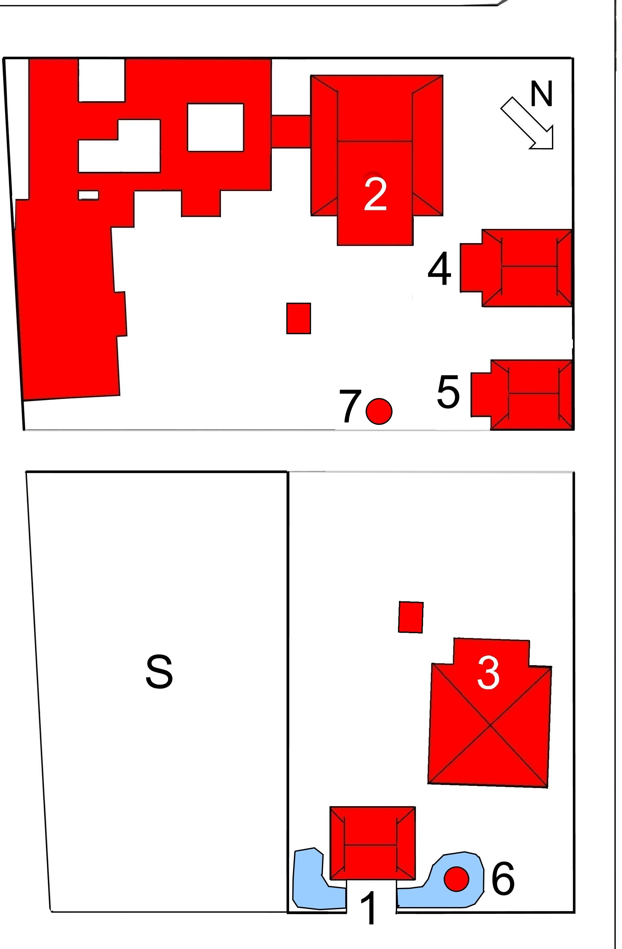 Layout of Namkô-bô, Imabari, Japan